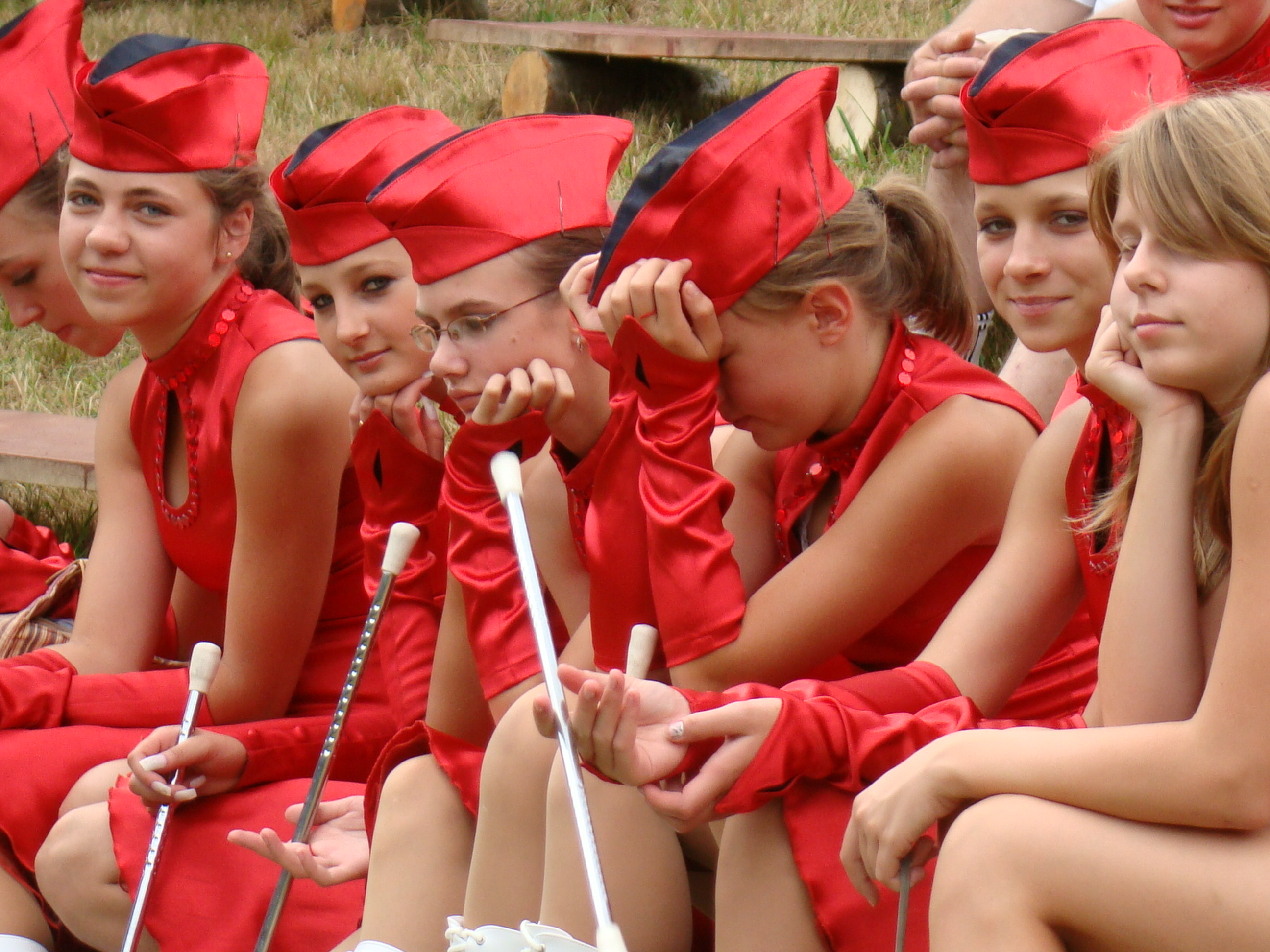 Majorettes from Zarszyn. (Autumn cattle exhibition in Rudawka Rymanowska. 2009-08-29)